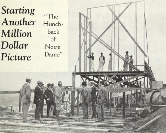 Construction of the first set for Universal's The Hunchback of Notre Dame. Wallace Worsley, the director, observes the erection of the set.